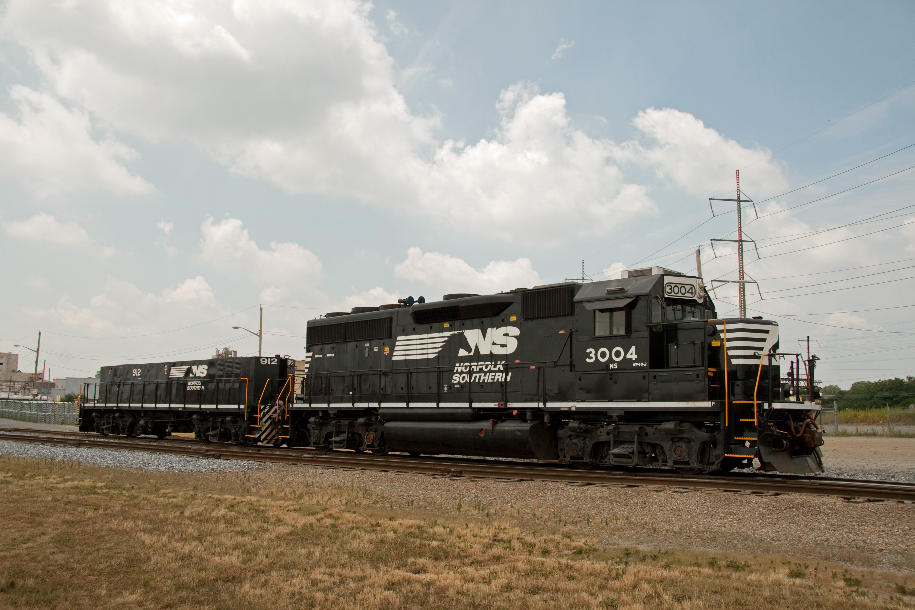 Norfolk Southern Engine 3004 and Slug 912 await their next assignment outside the Dupont titanium dioxide plant in Wilmington, Delaware.